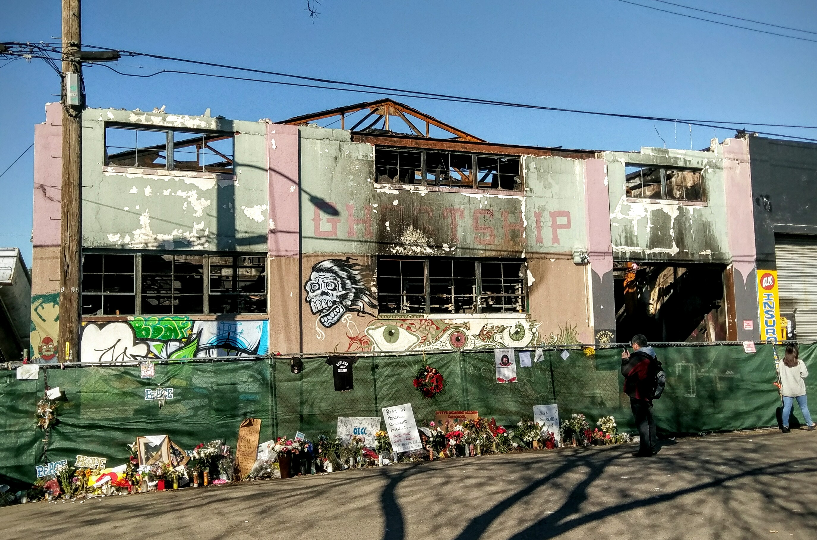 Site of a fire on December 2, 2016 that killed 36 people in Oakland, California.